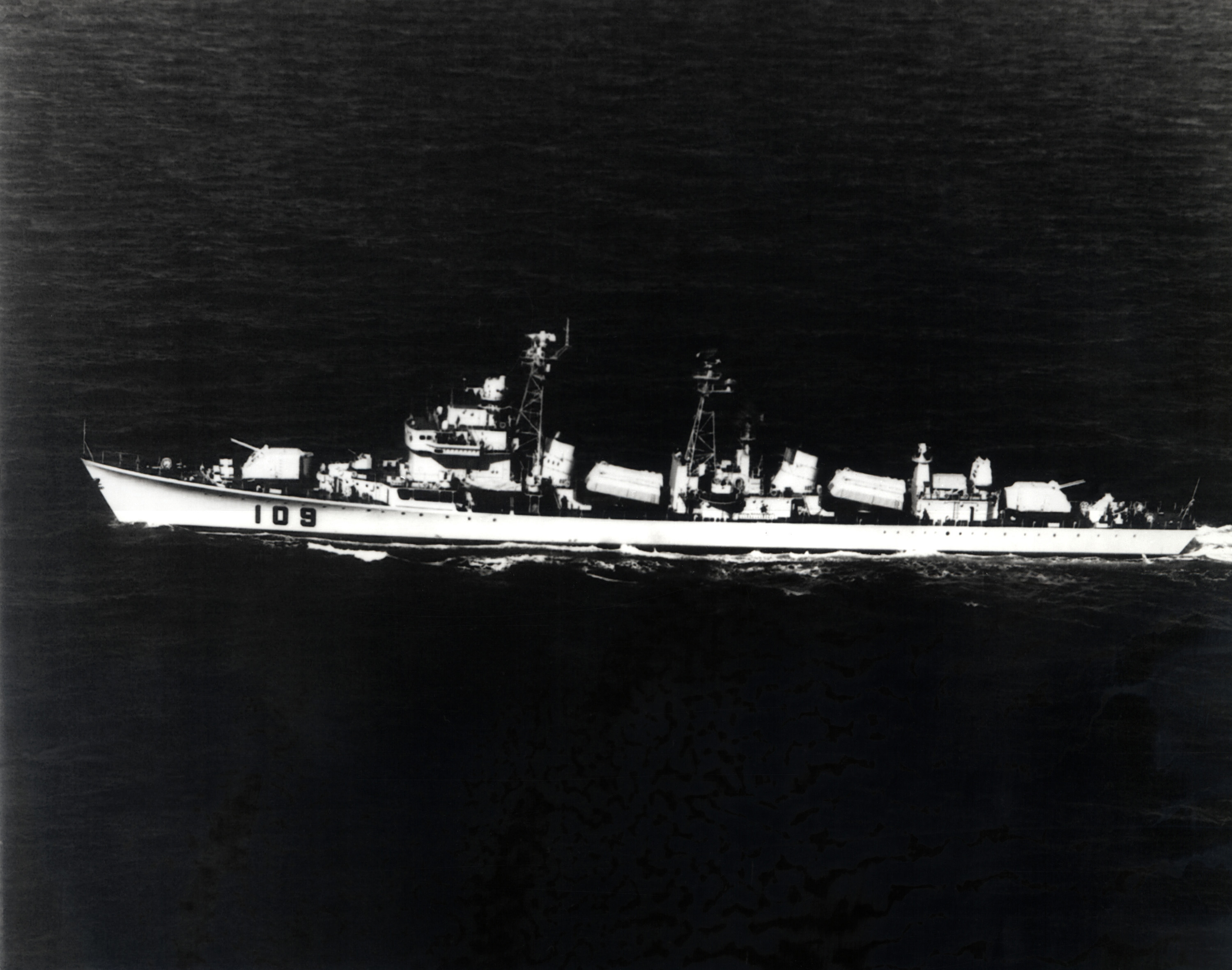 A port beam view of the Chinese Navy Luda class guided missile destroyer KAIFENG (DDG-109) underway.